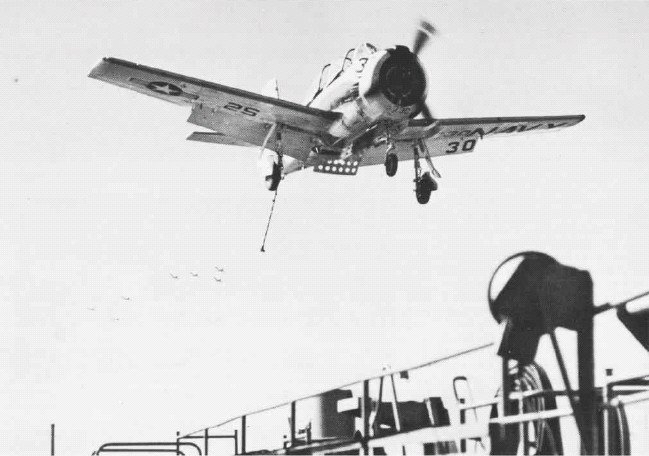 A North American T-28C Trojan trainer of the U.S. Navy approaching the training carrier USS Lexington (CVT-16) in 1970.